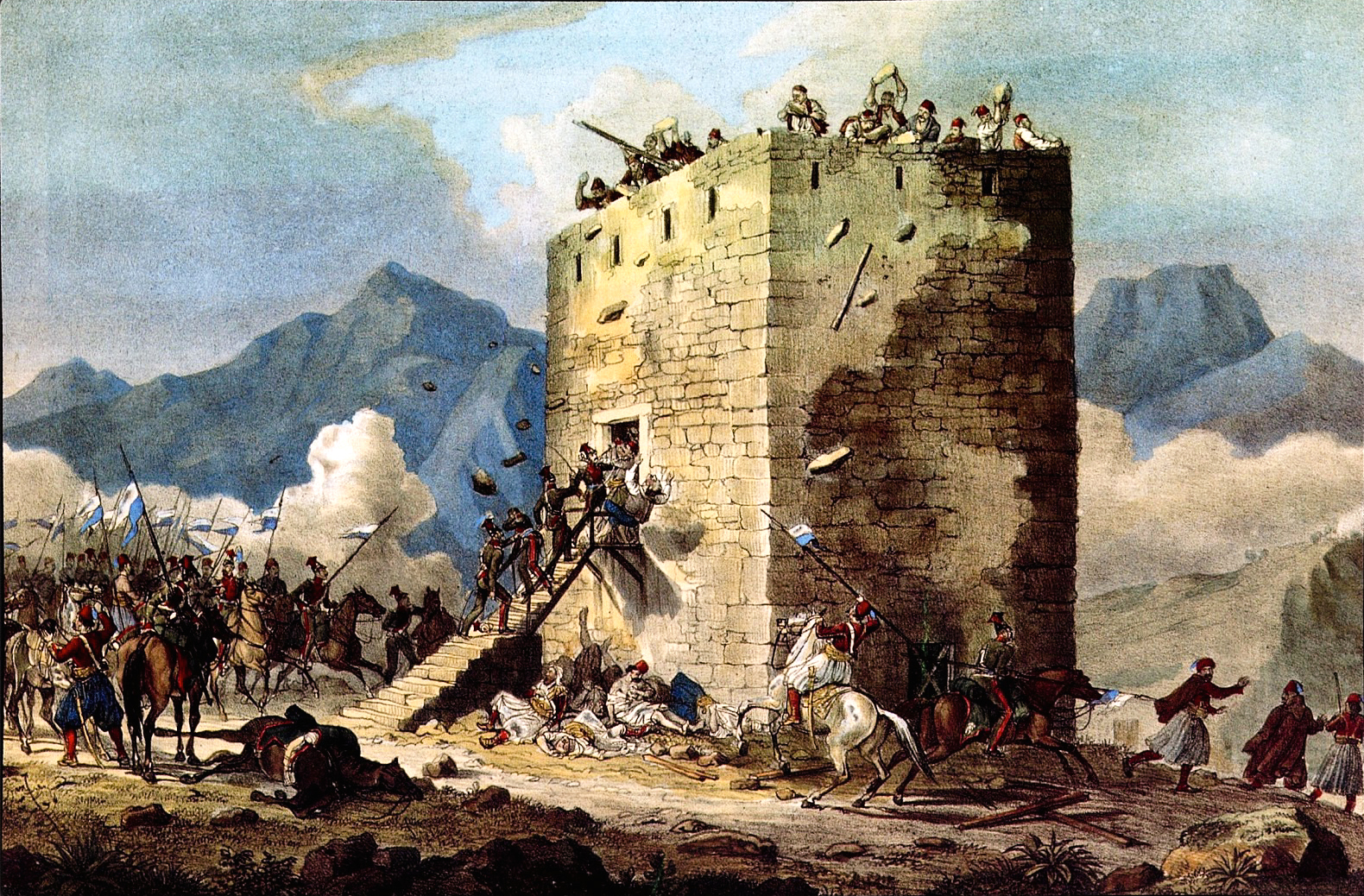 Bavarian troops attack rebels in a towerhouse